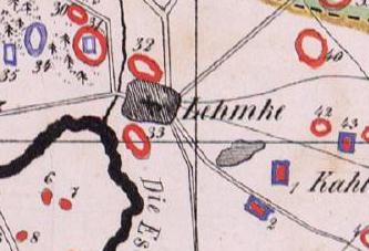 Prehistoric tombs near Lehmke